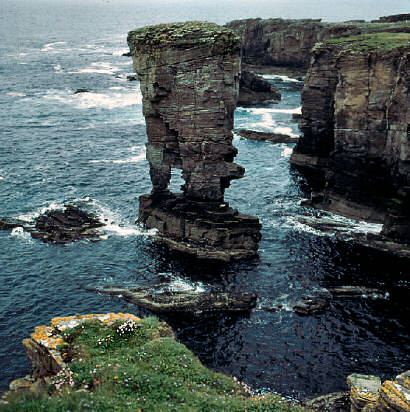 Yesnaby Castle, The Mainland Orkney / Orkney (stack) original copyright 1999 Wolfgang Schlick (aka Islandhopper) shot taken in 1999 full size in larger version published before from the authors archive Islandhopper 14:56, 30 July 2006 (UTC)